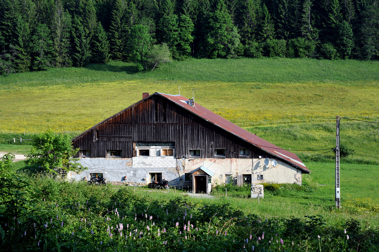 Auberge du Vieux Châteleu; Doubs, France. From this grange 1941 Michel Hollard crossed the first times secret the French-Swiss border to La Brévine. In place of the raw stonework at the first floor was the grange door by which Paul Cuenot indicated the area to be free of enemies.